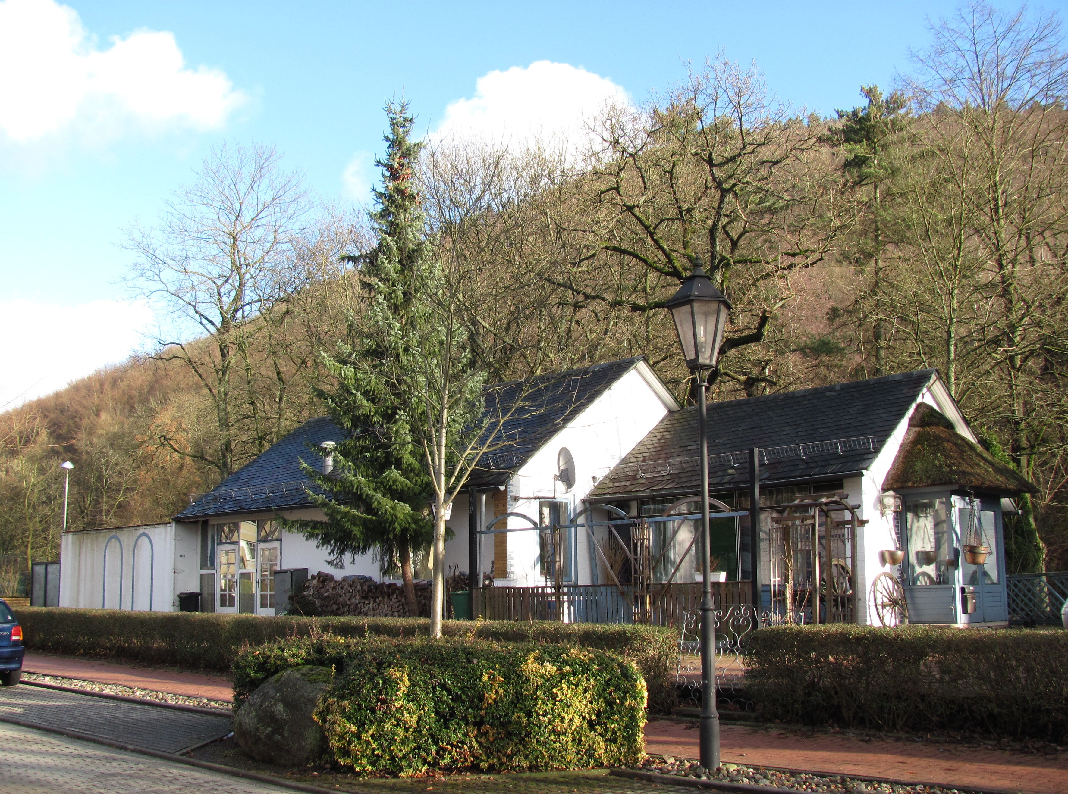 Former railway halt "Bad Lauterberg-Kurpark", Bad Lauterberg, Harz mountains, Lower Saxony, Germany